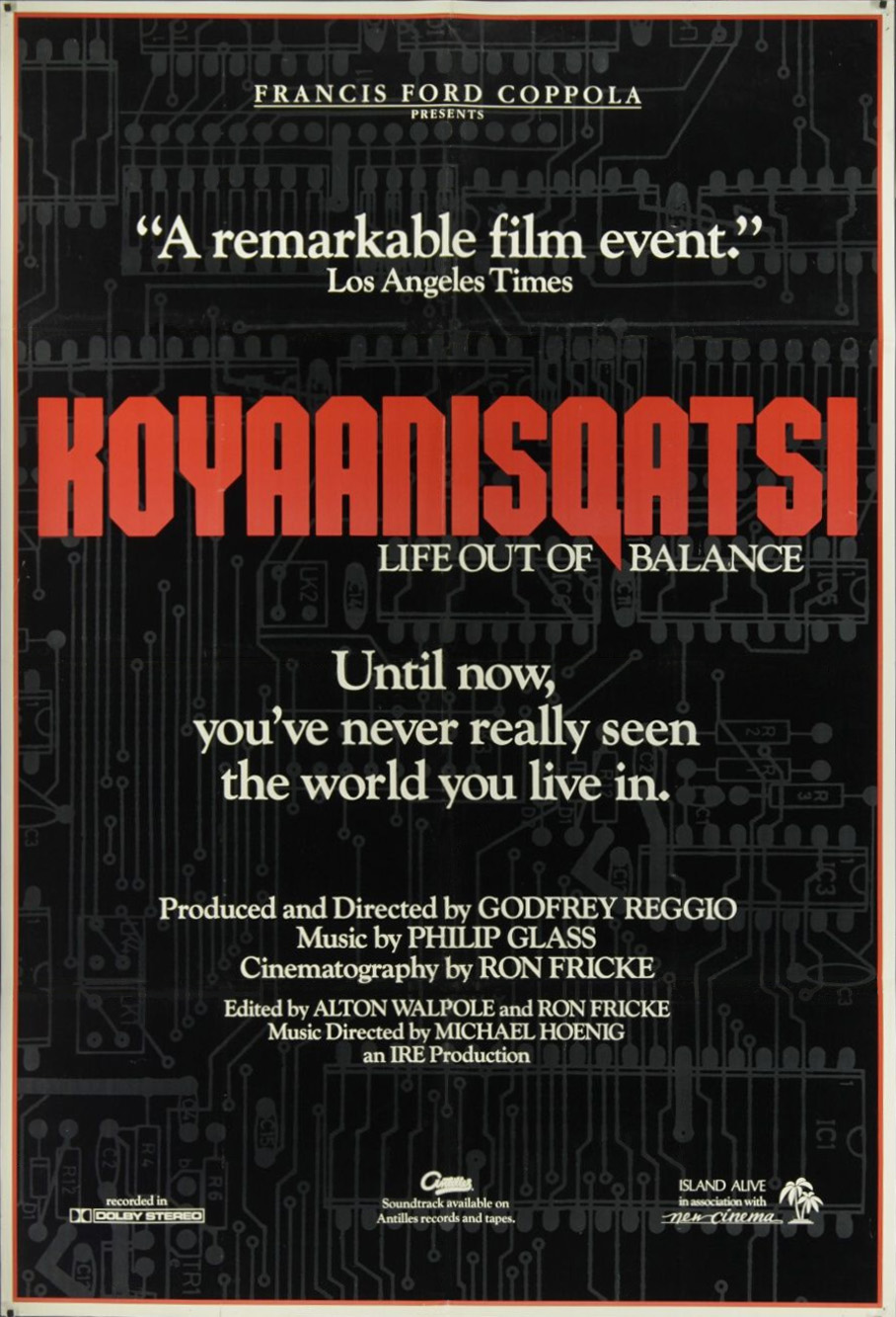 Theatrical release poster for the 1982 experimental film Koyaanisqatsi.